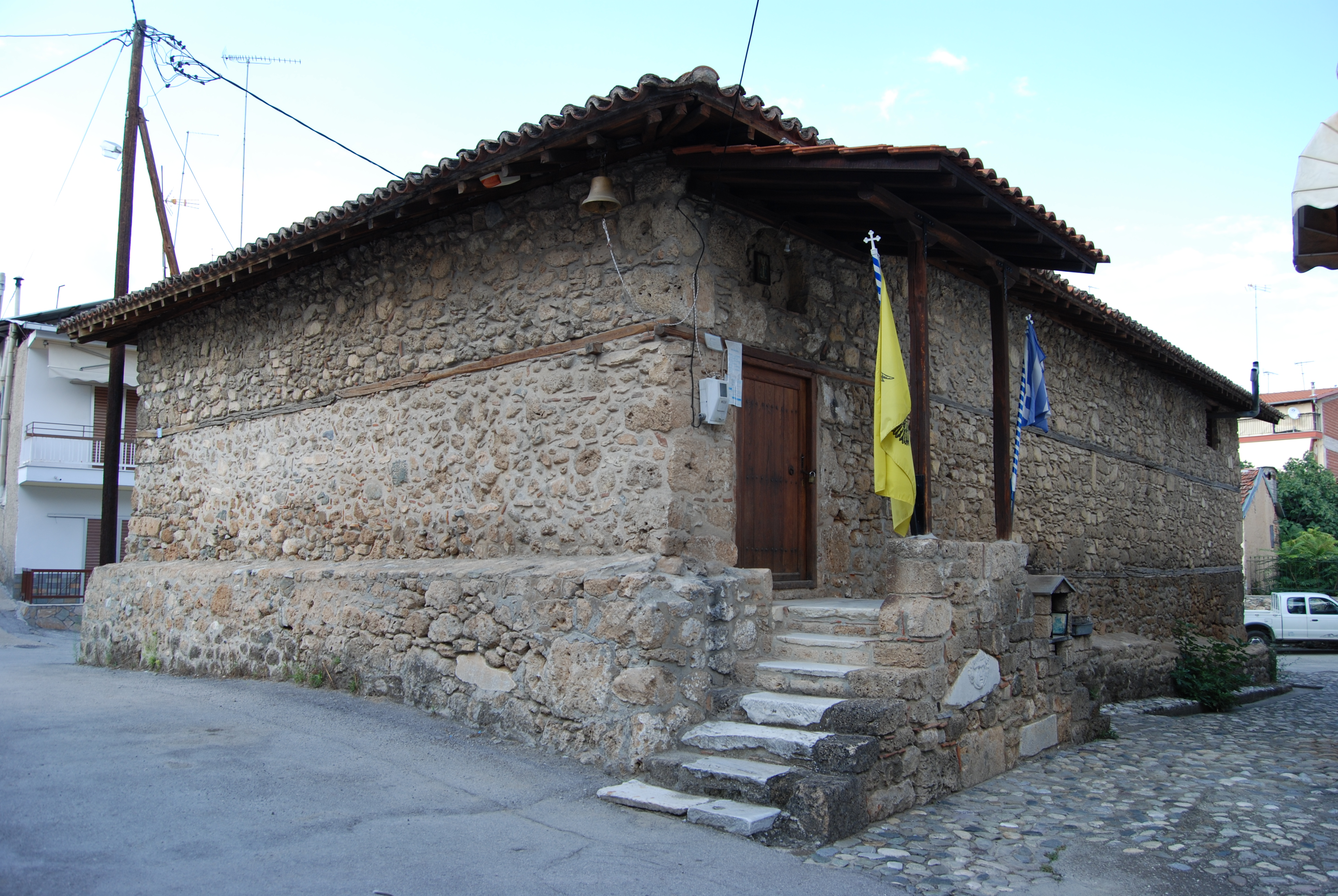 St. Nikolaos XVII, Ber